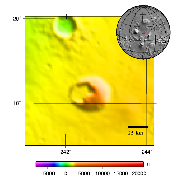 Topography map of shield vulcano Jovis Tholus on Mars